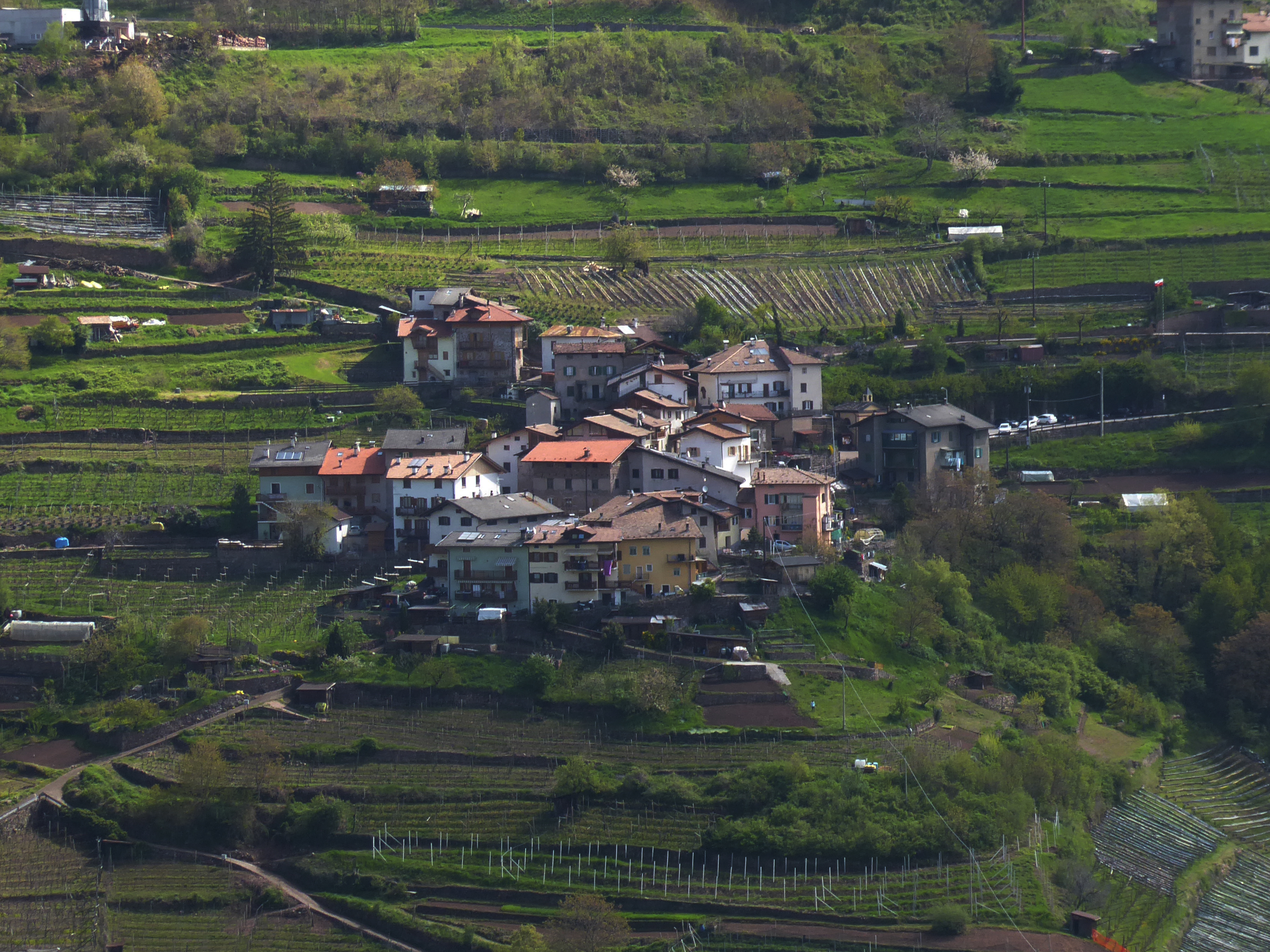 Teaio (Segonzano) as seen from the SS612 road, between Valda and Faver (Trentino, Italy)